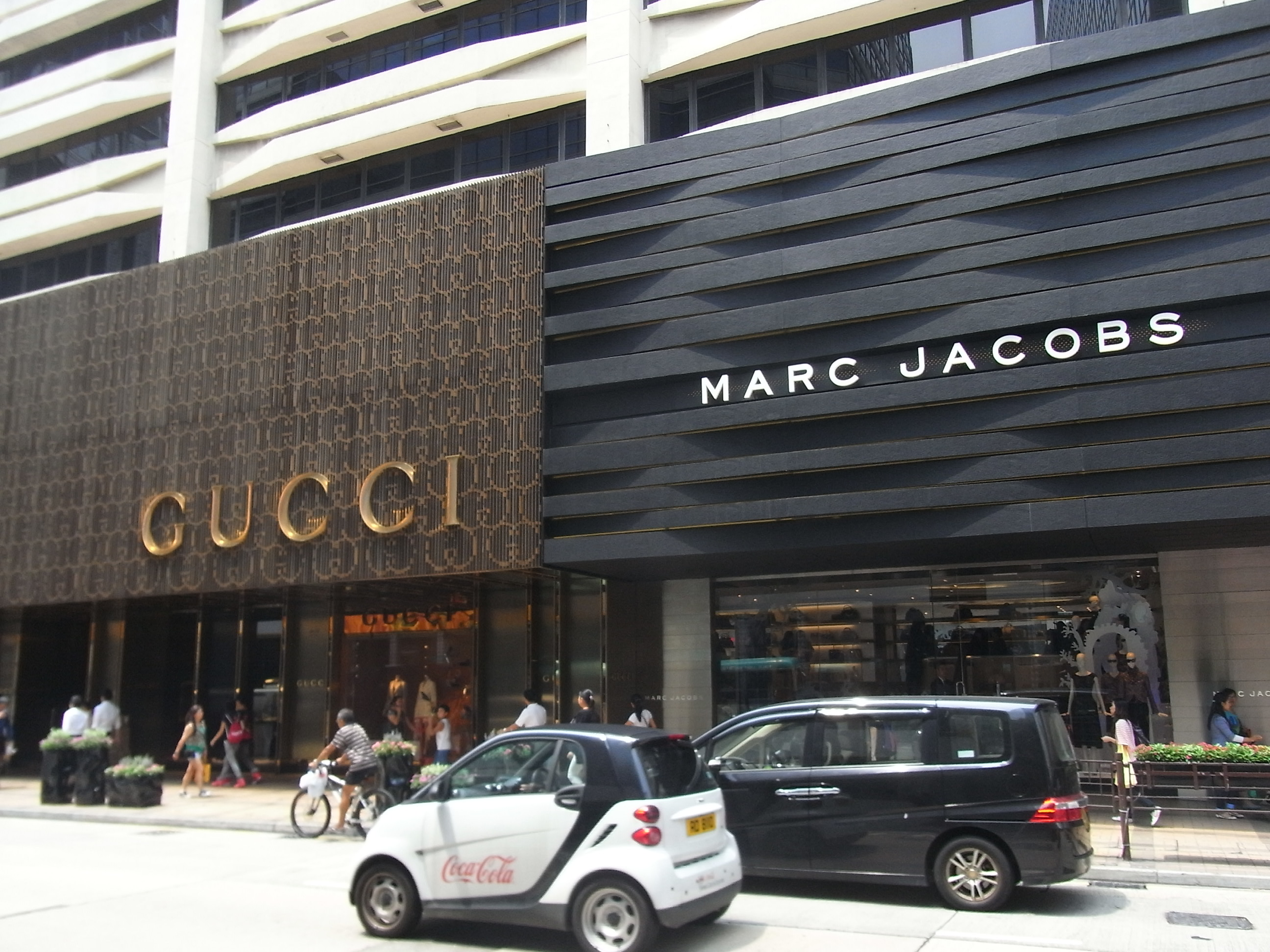 尖沙咀 廣東道, Canton Road, Tsim Sha Tsui, Hong Kong